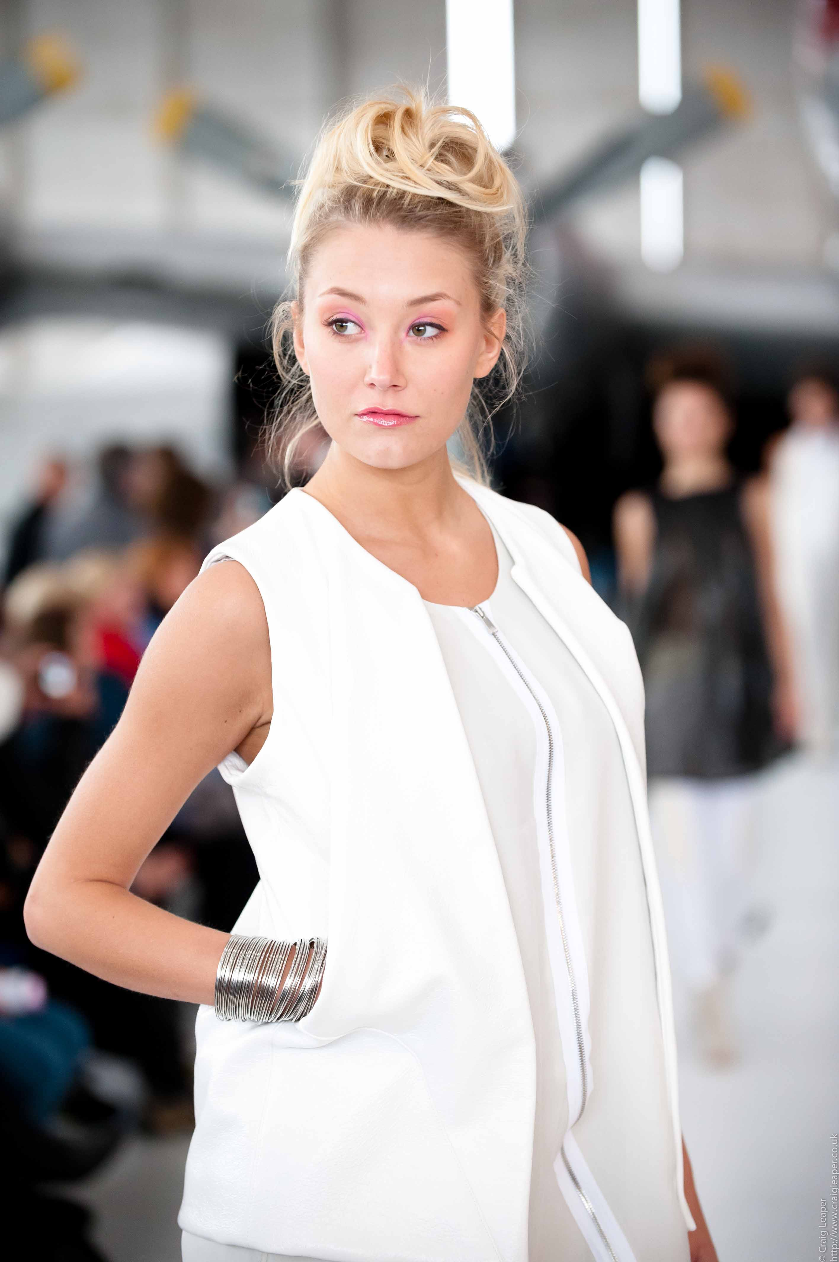 British actress Melissa Walton pictured at the Coventry University end of year Fashion Show. This photo was taken by Craig Leaper Photography.